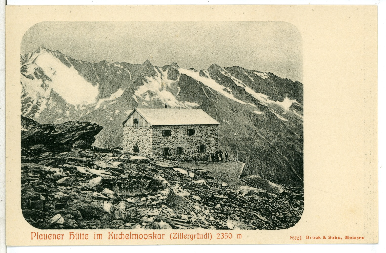 This postcard is from publisher Brück & Sohn in Meißen ( This postcard has a unique number 08921 and is available in a higher resolution at the publisher. This images was uploaded in a cooperation project between Wikipedians and the publisher.